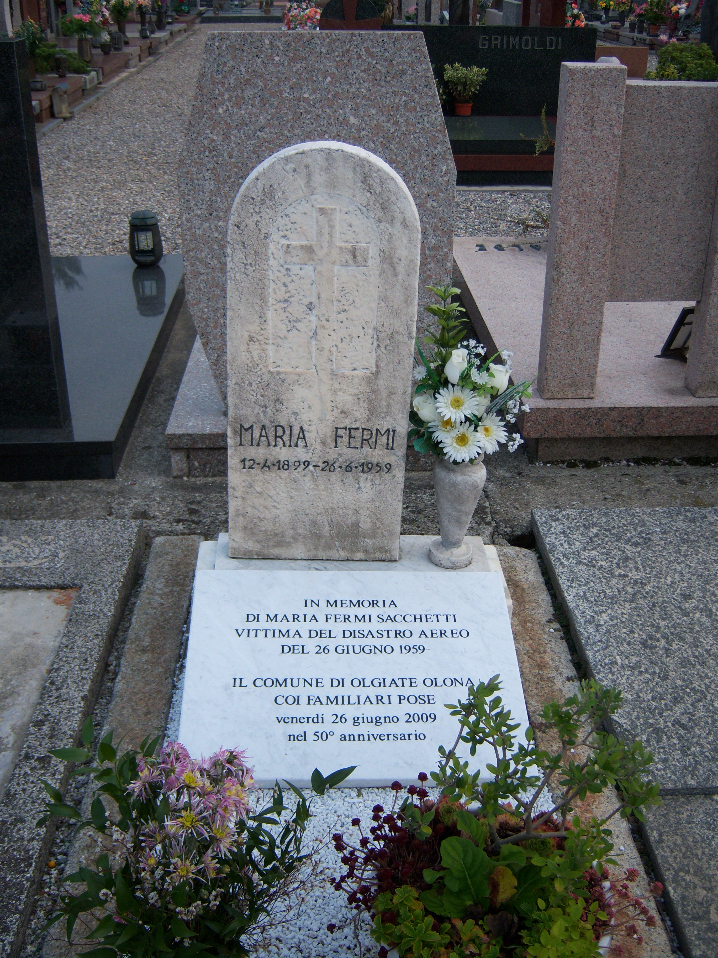 Tomb of Maria Fermi Sacchetti (born Fermi, sister of the physics Enrico Fermi) in the cemetery of Olgiate Olona (VA), where she was killed in an aviation accident occurred in 1959.